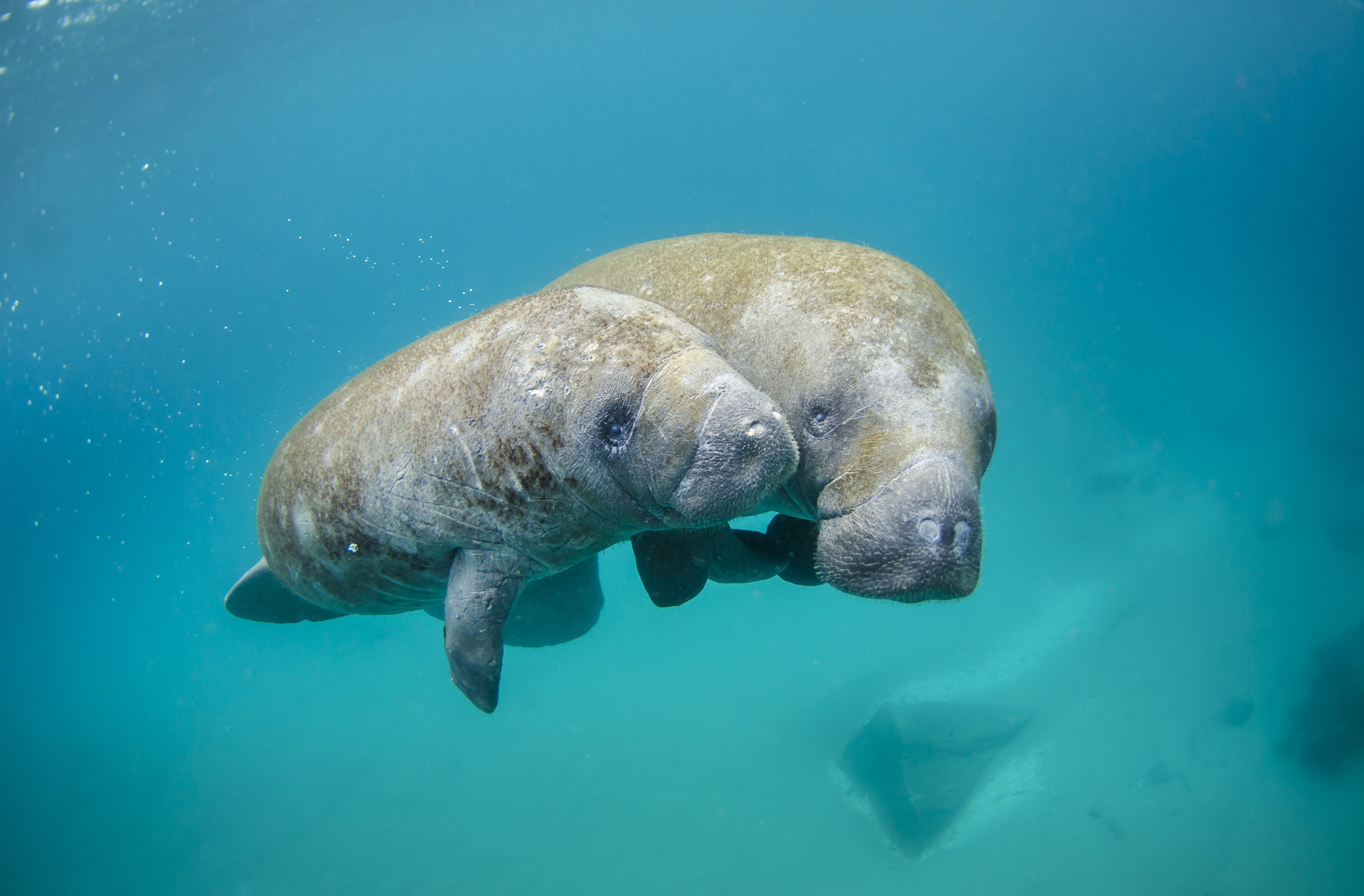 Mother manatee and calf swimming out of an inlet